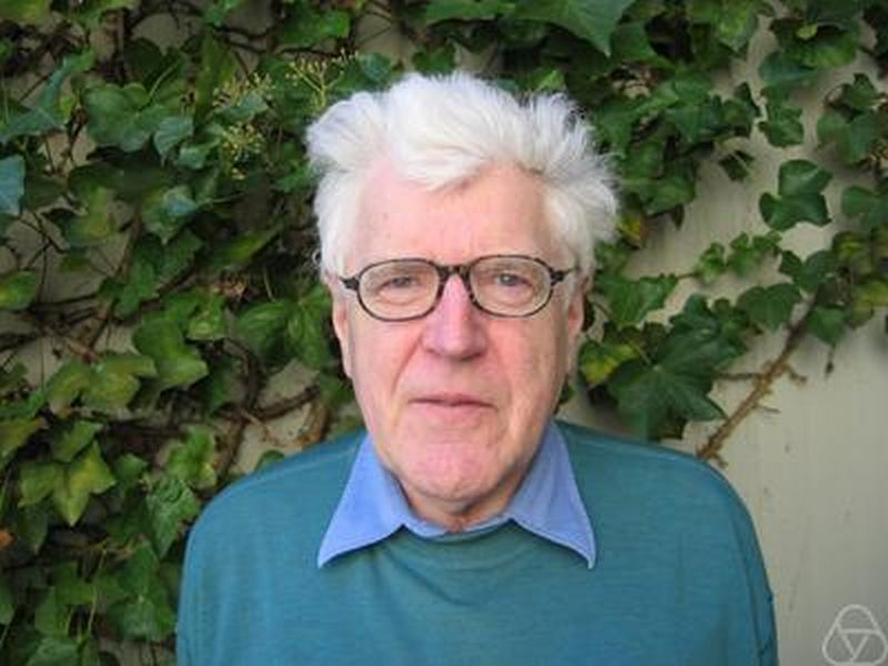 Jacob Murre, Oberwolfach 2004